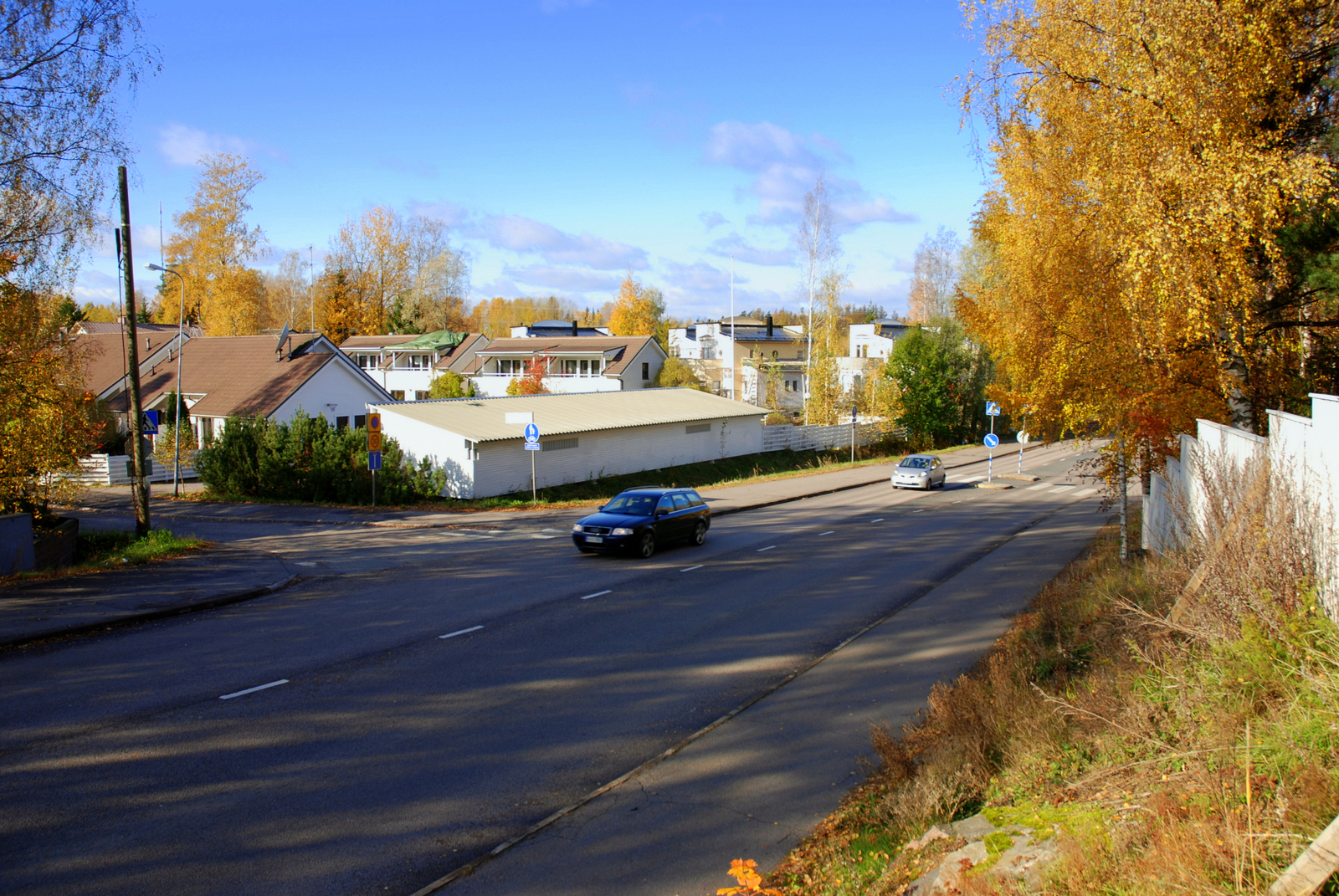 Espoo Finnoontie. Эспо. Улица Финно. Foto by Victor Belousov